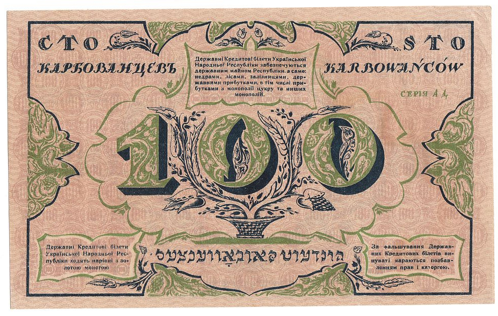 Reverse of the 100 karbovanets government credit note issued by the Ukrainian People's Republic. (Obverse of the banknote is File:100karbovantsevUNR A.jpg.